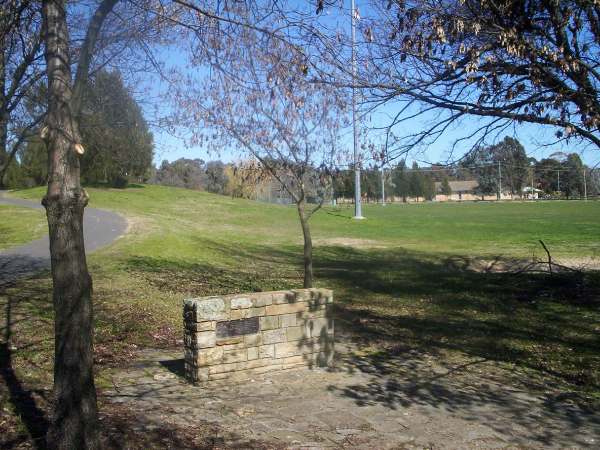 Tablet in Aranda in Canberra. I took the photo Cfitzart 13:24, 26 August 2005 (UTC)